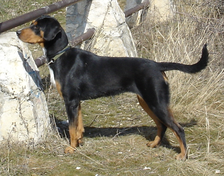 Transylvanian hound female, Vadász Nimród Szeder in Urom, Hungary